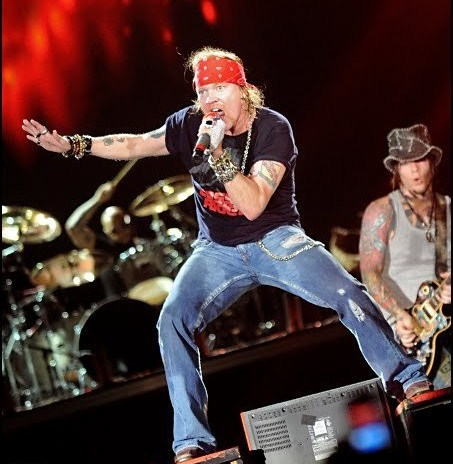 Axl Rose in 2010 concert